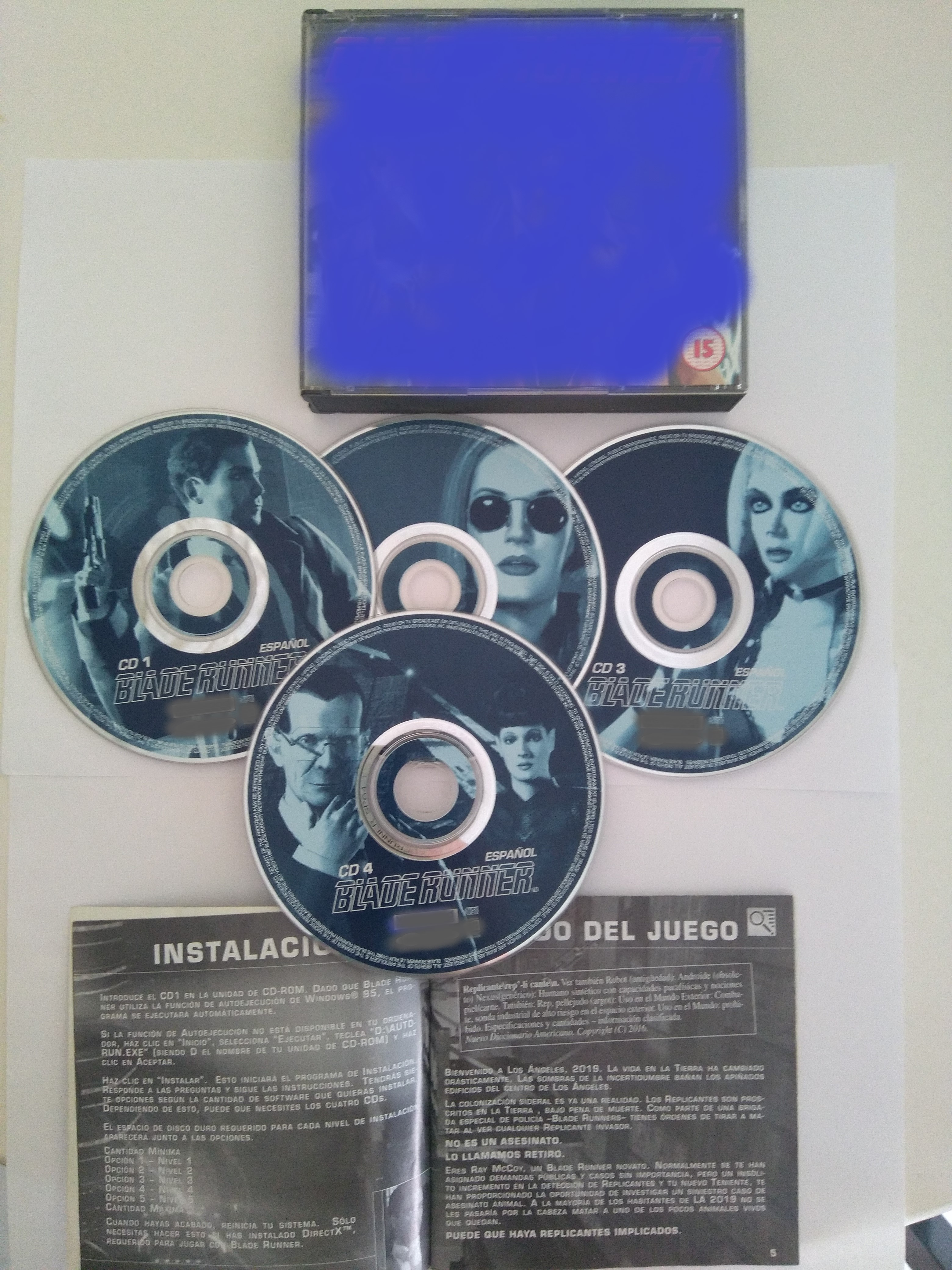 Blade Runner computer game (without CD cover) 4 game CDs; the cover of the box has become unrecognizable for reasons of copyright